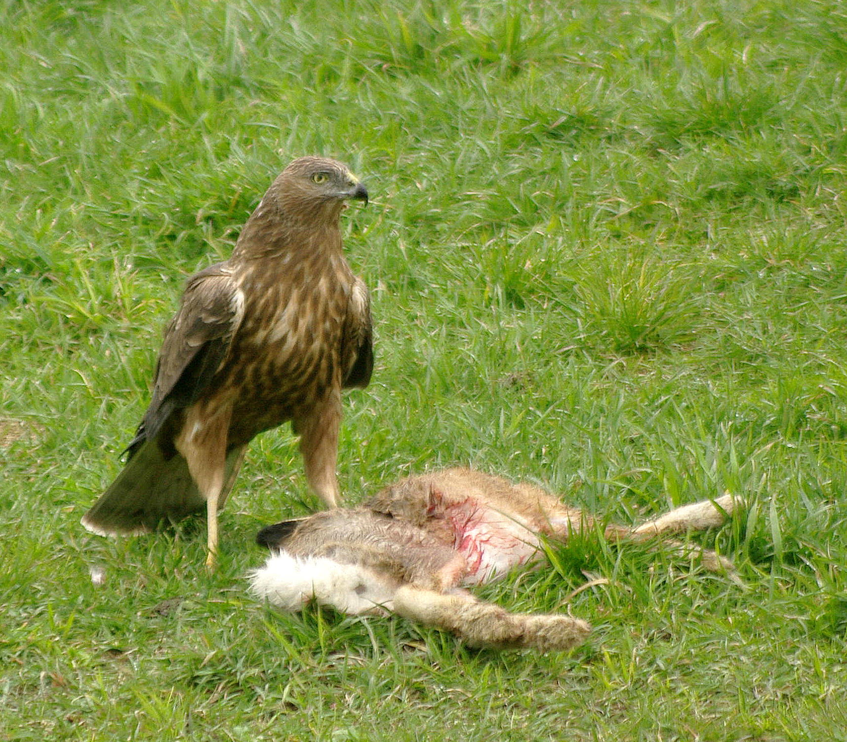 A Swamp Harrier Circus approximans in New Zealand. It is standing over a dead hare.